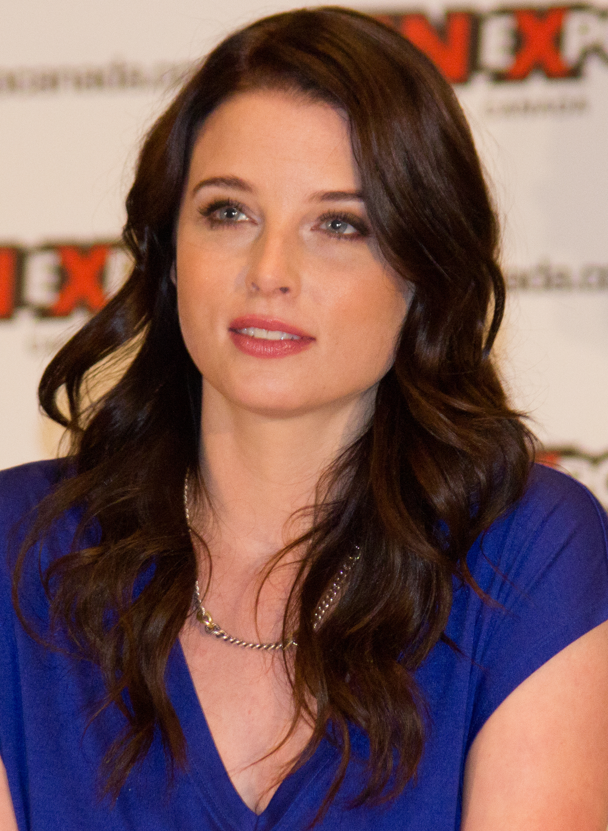 Actress Rachel Nichols at the 2012 FanExpo Canada.